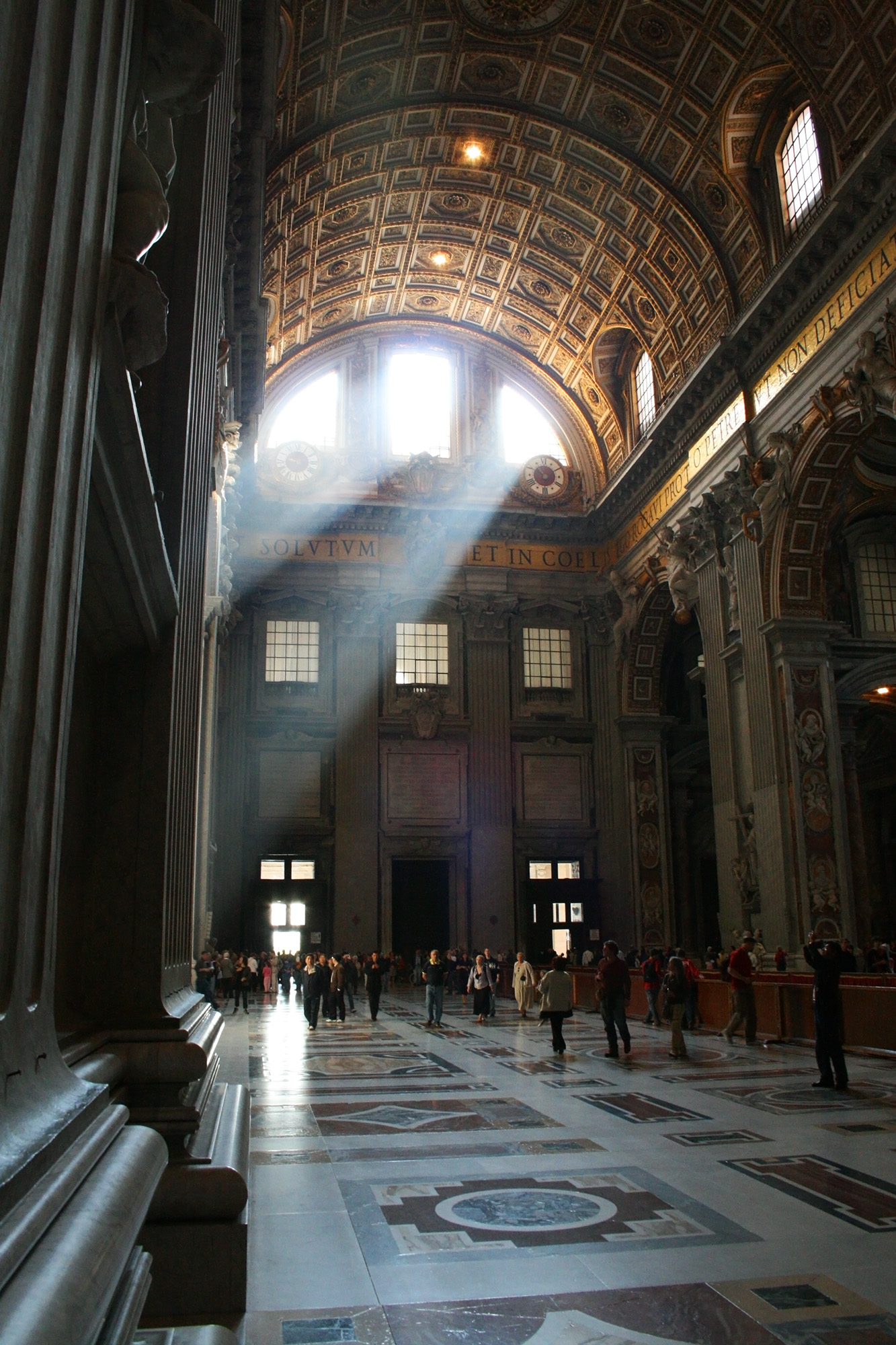 Interior of St. Peter's Basilica